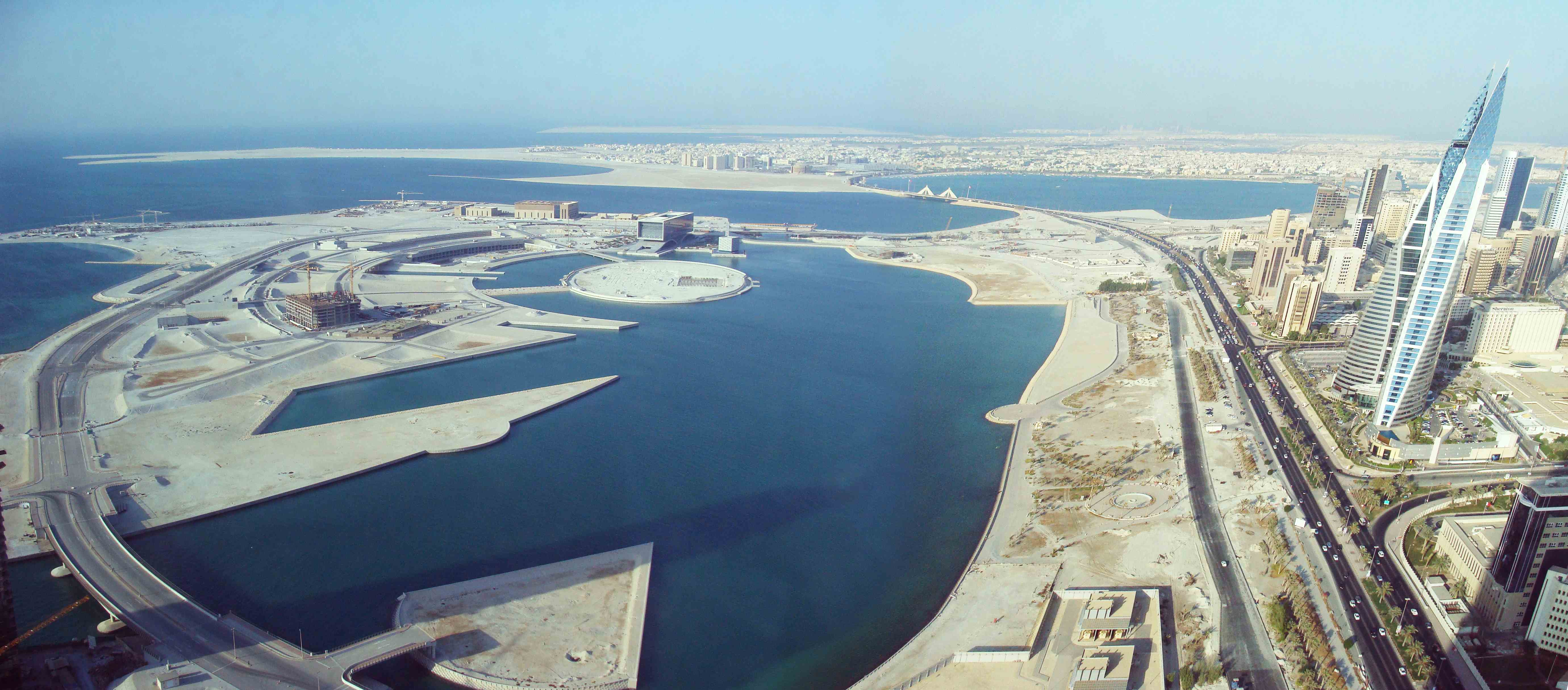 An overview photo of the Bahrain Bay reclamation site.